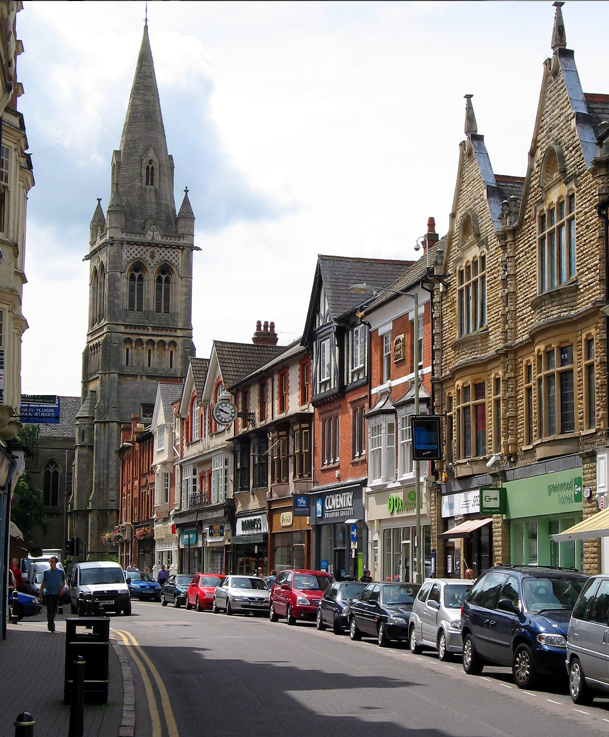 Regent Street in Rugby, at the end is St Andrews Church. Photo by G-Man July 2005